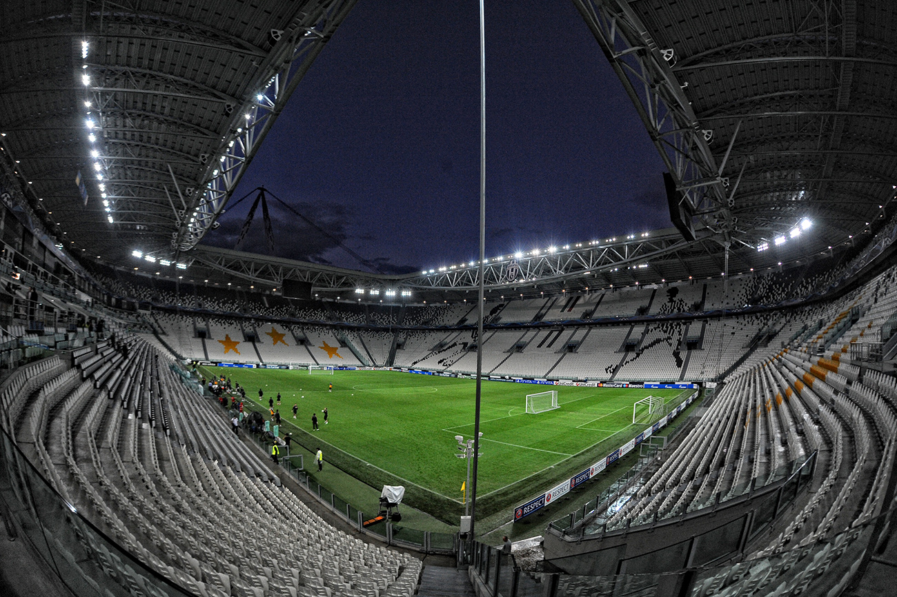 Juventus Stadium in Turin, Piedmont, Italy